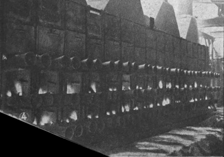 The muffle furnaces, probably in Upper Silesia.